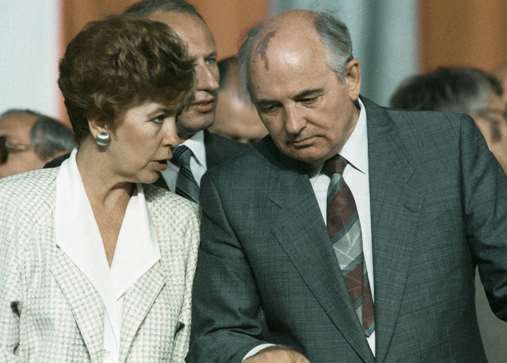 “Gorbachev with spouse in Poland”. General Secretary of the CPSU Central Committee Mikhail Gorbachev (right) and his spouse Raisa Gorbachev after a friendship meeting in the Wawel Castle during a visit to Poland.